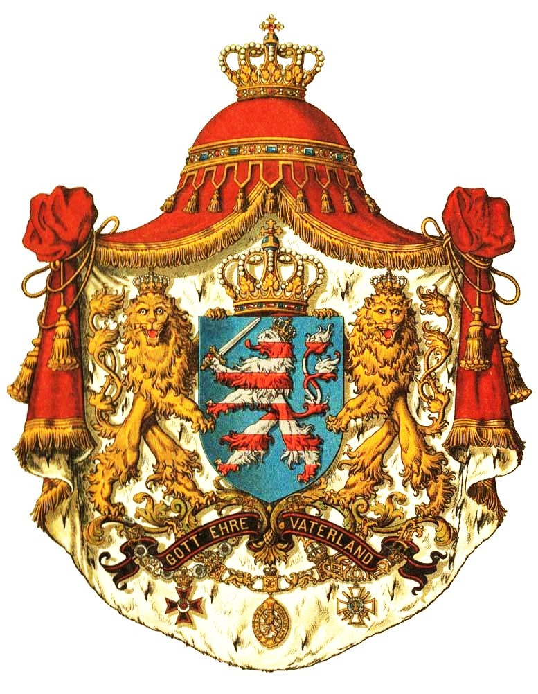 Great majesty crest of the Grand Duchy of Hesse